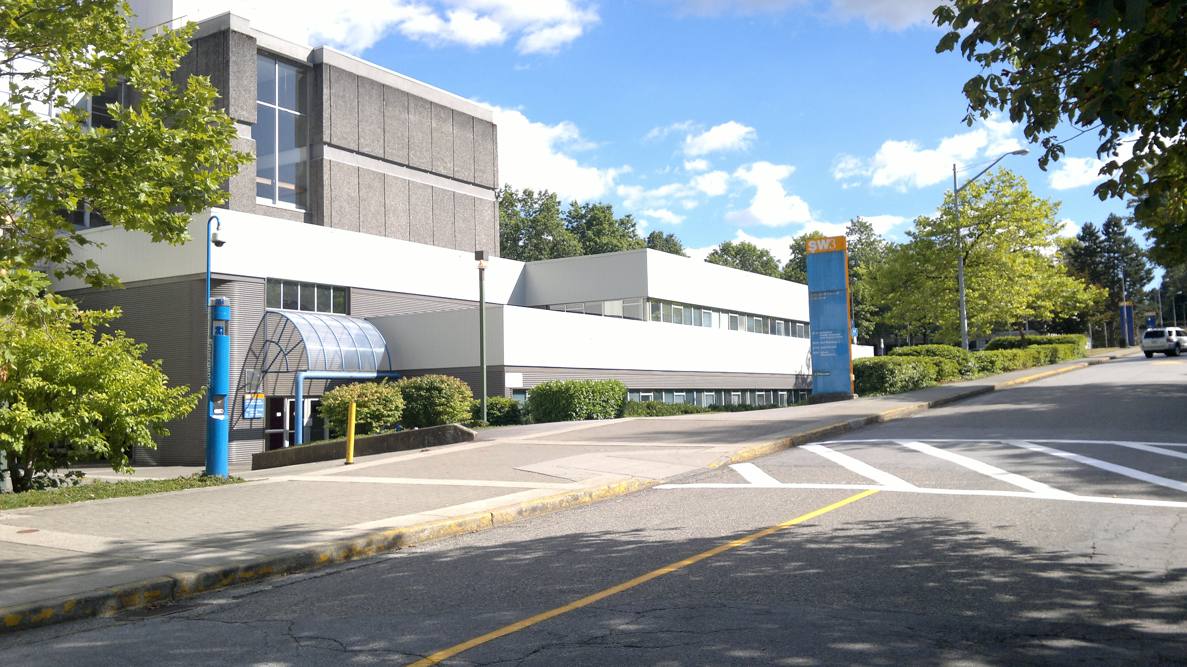 British Columbia Institute of Technology (BCIT) School of Health Sciences.